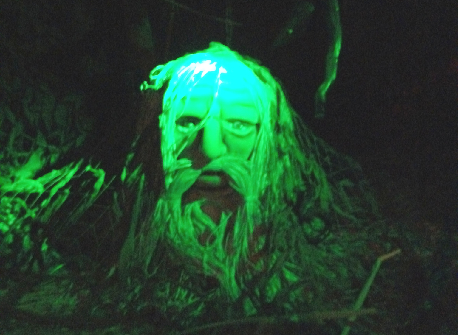 Vadzianik, Slavic legendary creature